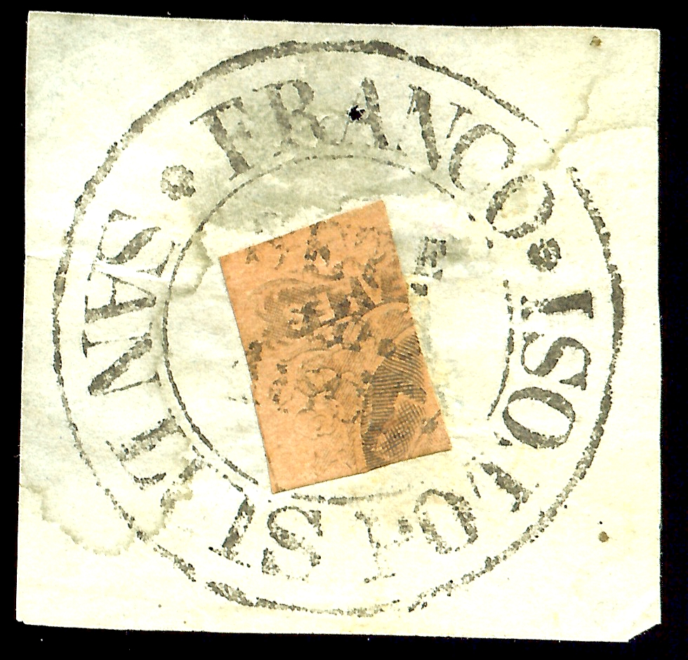 A Mexican 8 reales postage stamp, Scott no. 11, printed in 1861, quartered for used as 2 reales, on piece of envelope with San Luis Potosi cancellation